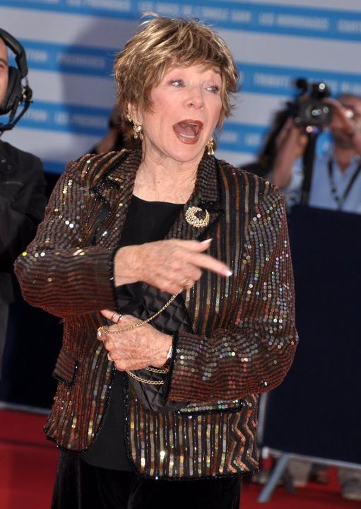 Shirley MacLaine at the Deauville film festival